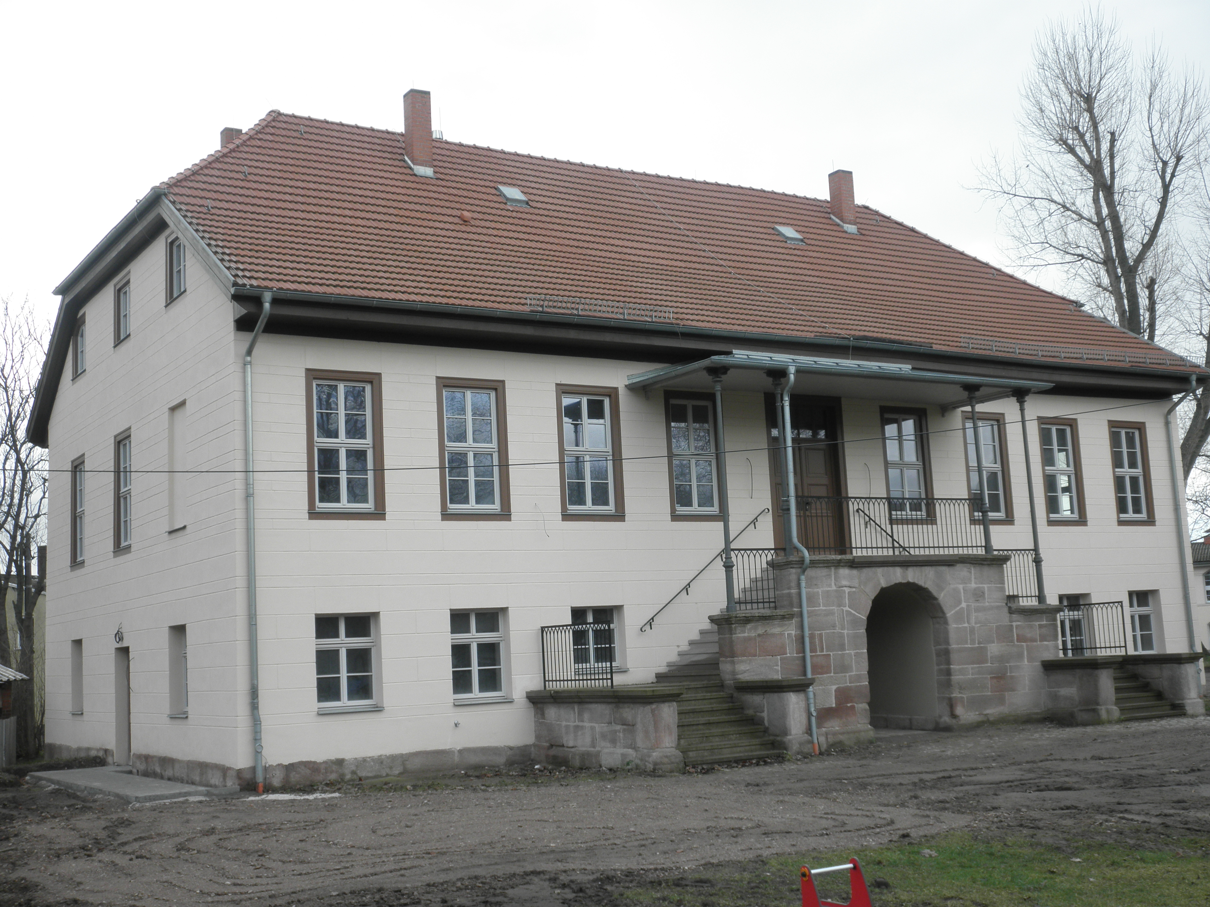 Manor House in Tunzenhausen (Sömmerda) in Thuringia